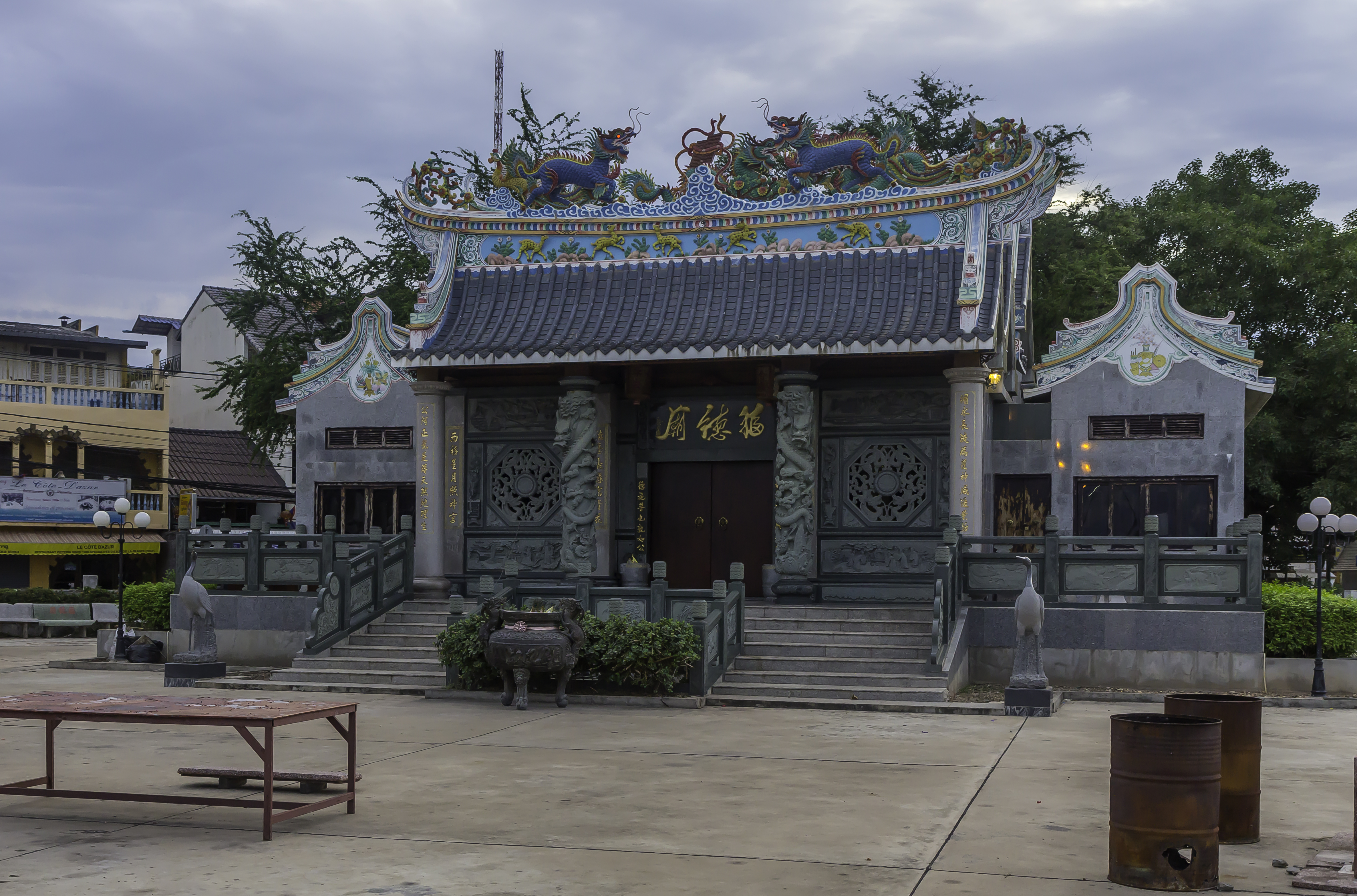 Chinese Temple, Vientiane, Laos